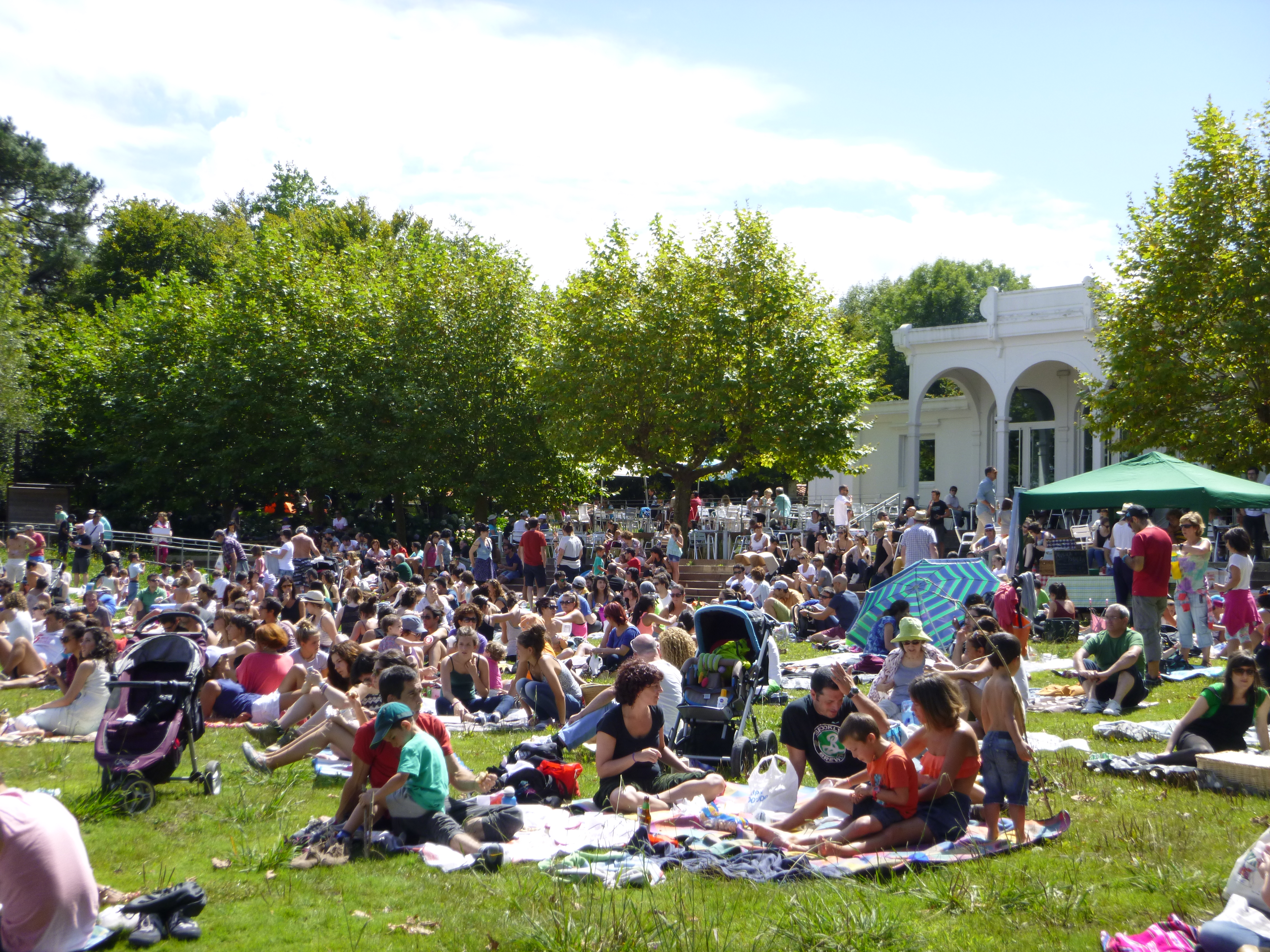 Musika Parkean, Ulia, august 2014